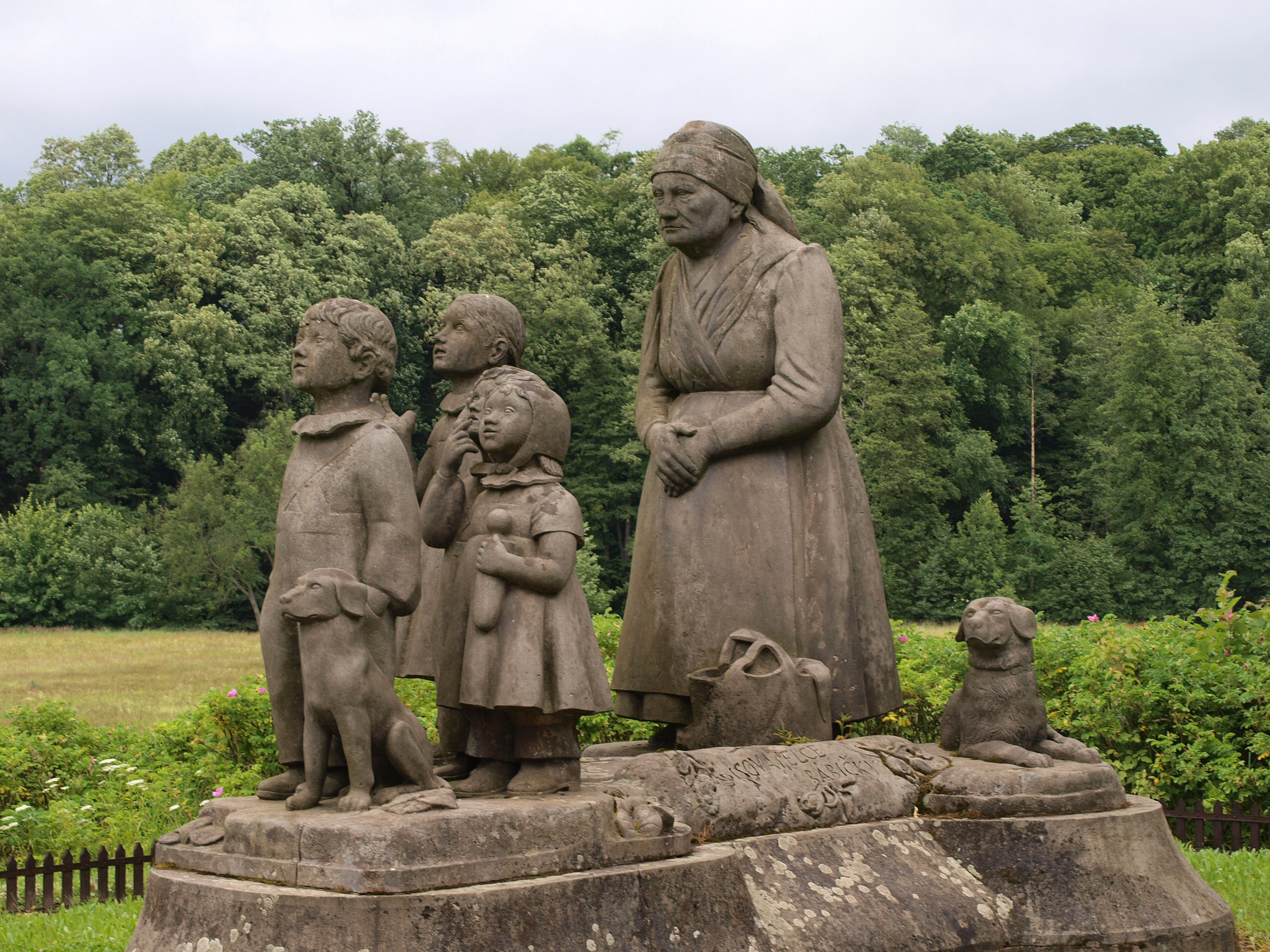 Memorial of "Babička", Ratibořice